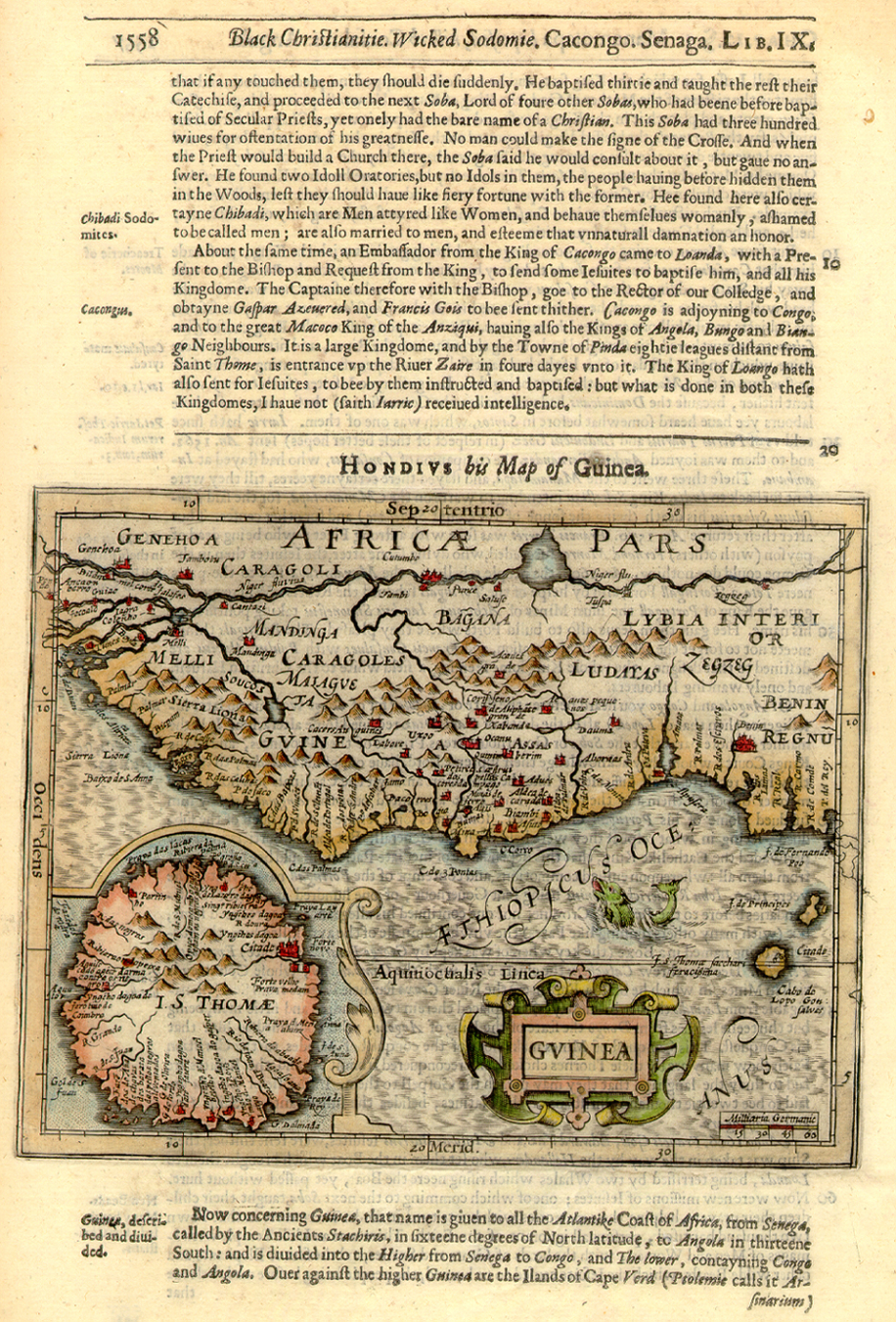 1625 map of Guinea